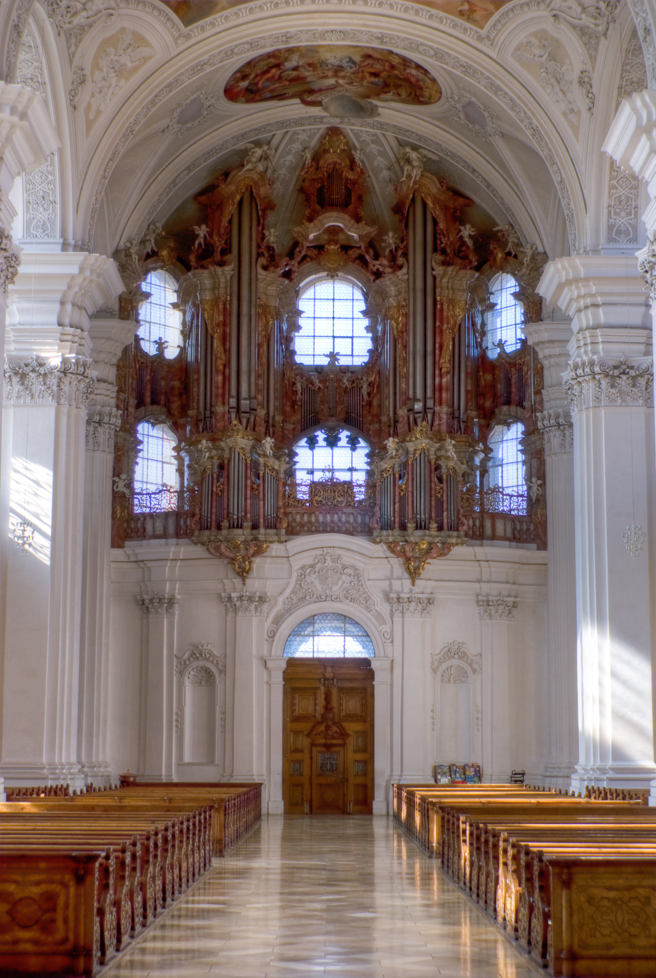 The beautiful organ in the Weingarten Basilica